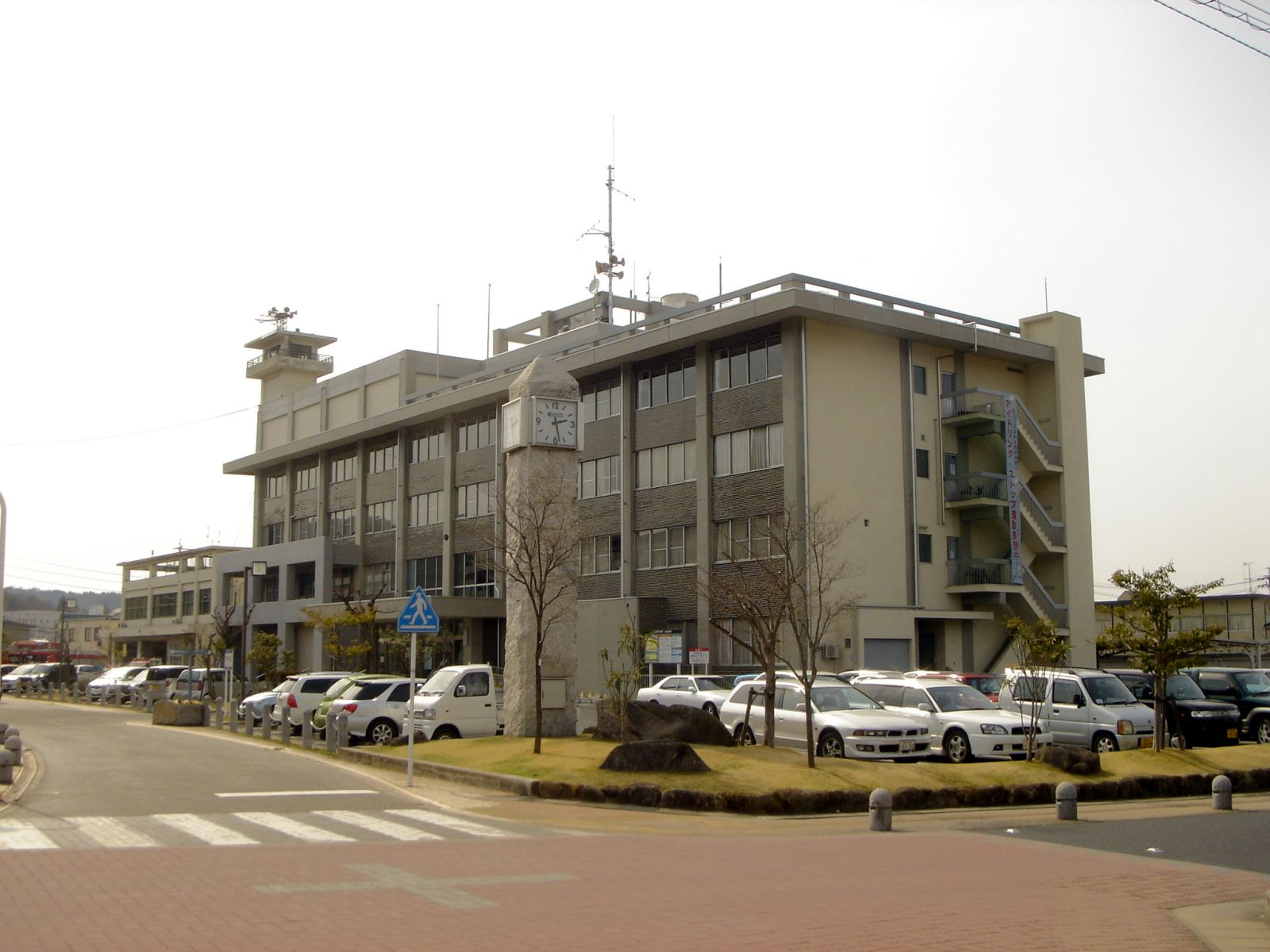 Ena City hall（恵那市市役所）,Ena,Gifu,Japan(岐阜県恵那市)で撮影。